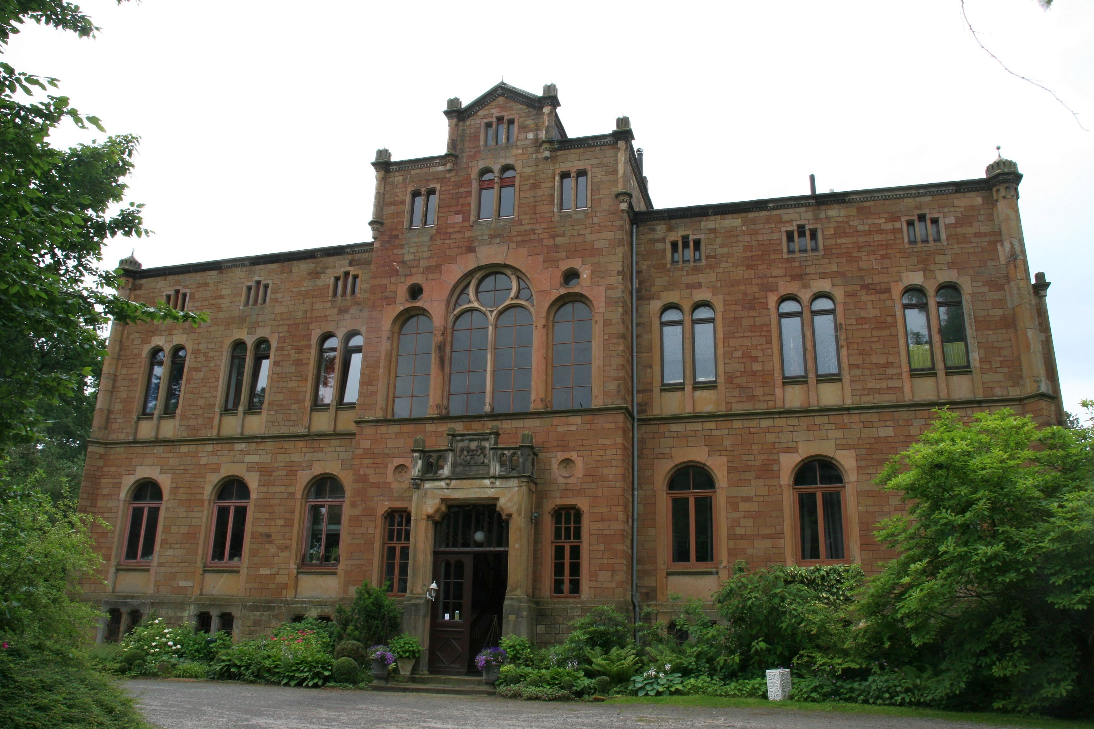 Bramsche: Castle Neu Barenaue